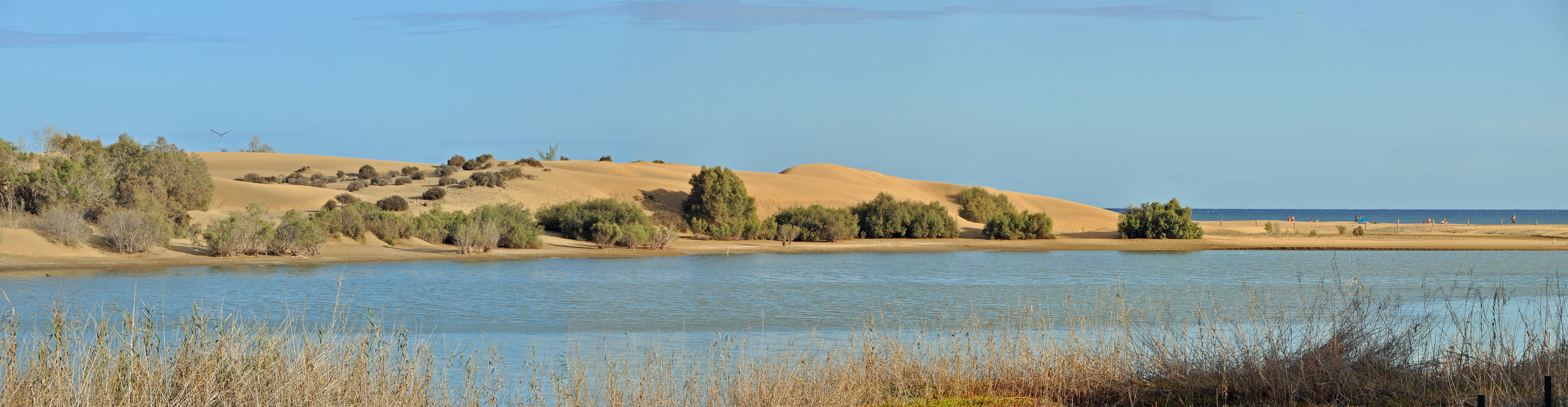 The dunes of Maspalomas (Gran Canaria) and in the foreground the Charco de Maspalomas, a lake with brackish water